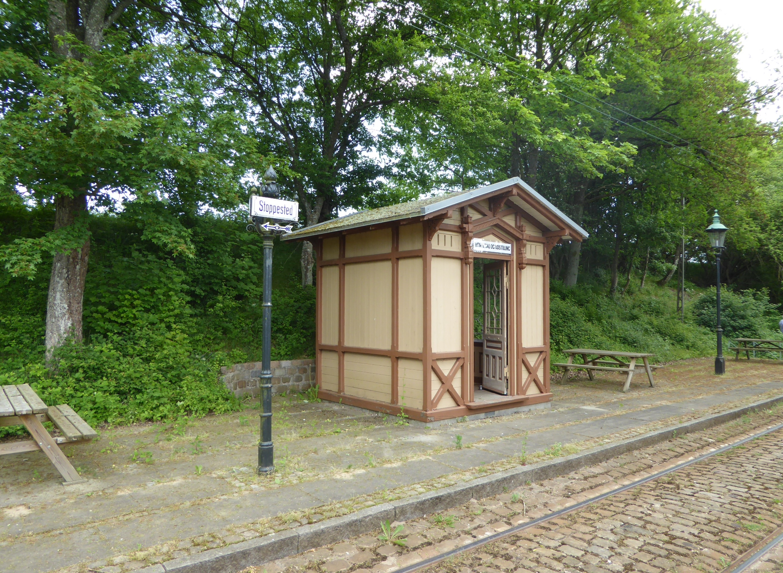 The tram stop Flemmingsminde at the tramway museum Sporvejsmuseet Skjoldenæsholm in Denmark. The shelter was originally placed at Vester Kirkegård in Copenhagen. It is now used for a little exhibition about the railway Midtbanen (1925 - 1936). The tracks of the museum are placed on the tracé of the former railway.